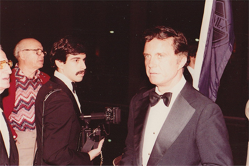 Actor Cliff Robertson in 1981. Photo by Alan Light